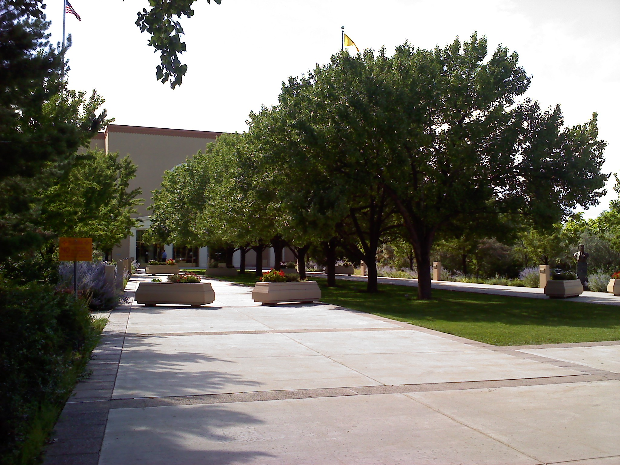 A Photograph of the New Mexico State Capitol west enterance, taken August 2010.